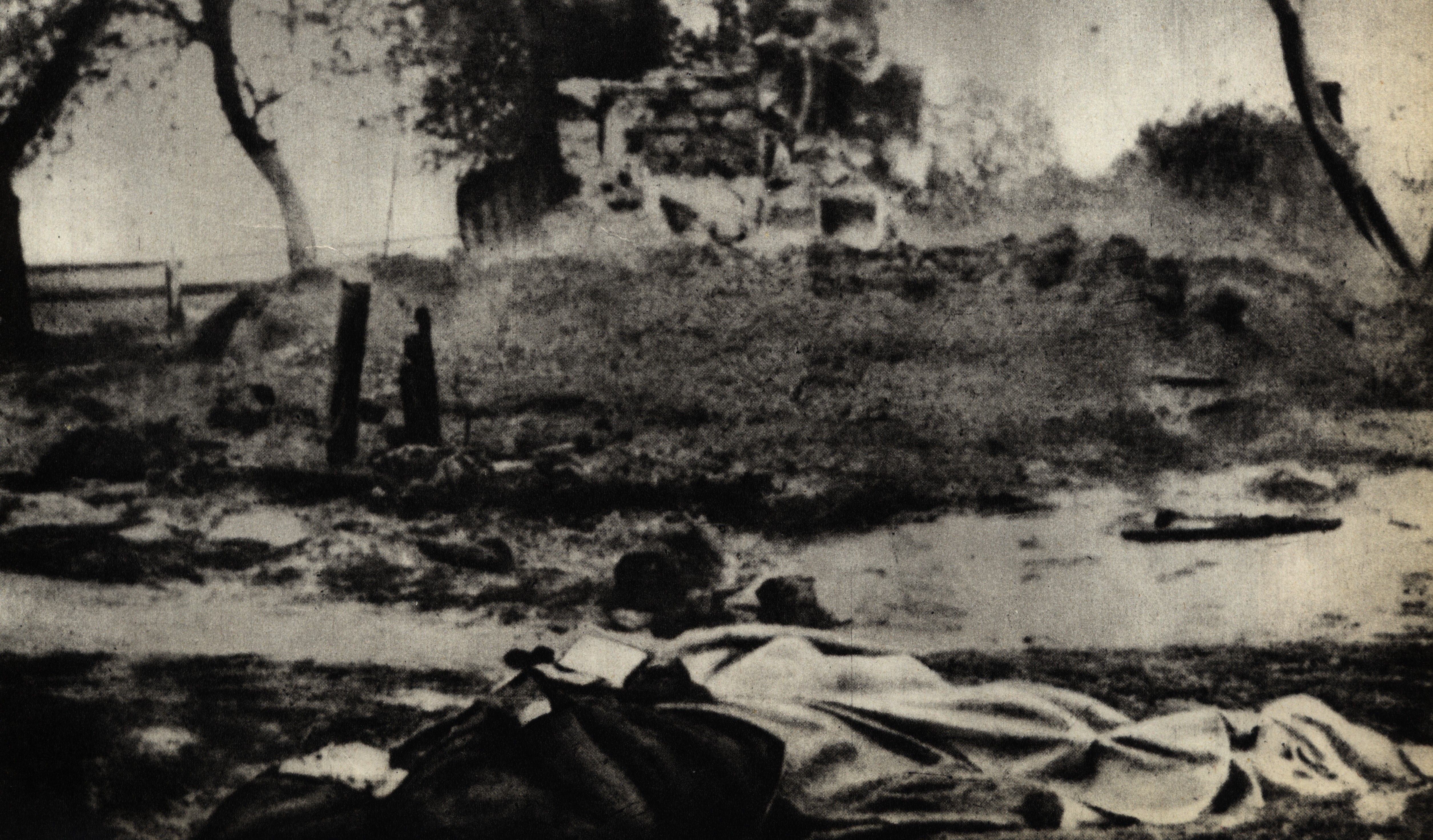 Polish village Szarajówka in Biłgoraj county burned by German occupants. On 18th May 1943 German gendarmerie and their Ukrainian collaborates destroyed Szarajówka and murdered 67 of its inhabitants. Most of the victims (58) were burned alive. This photo was taken after the massacre.